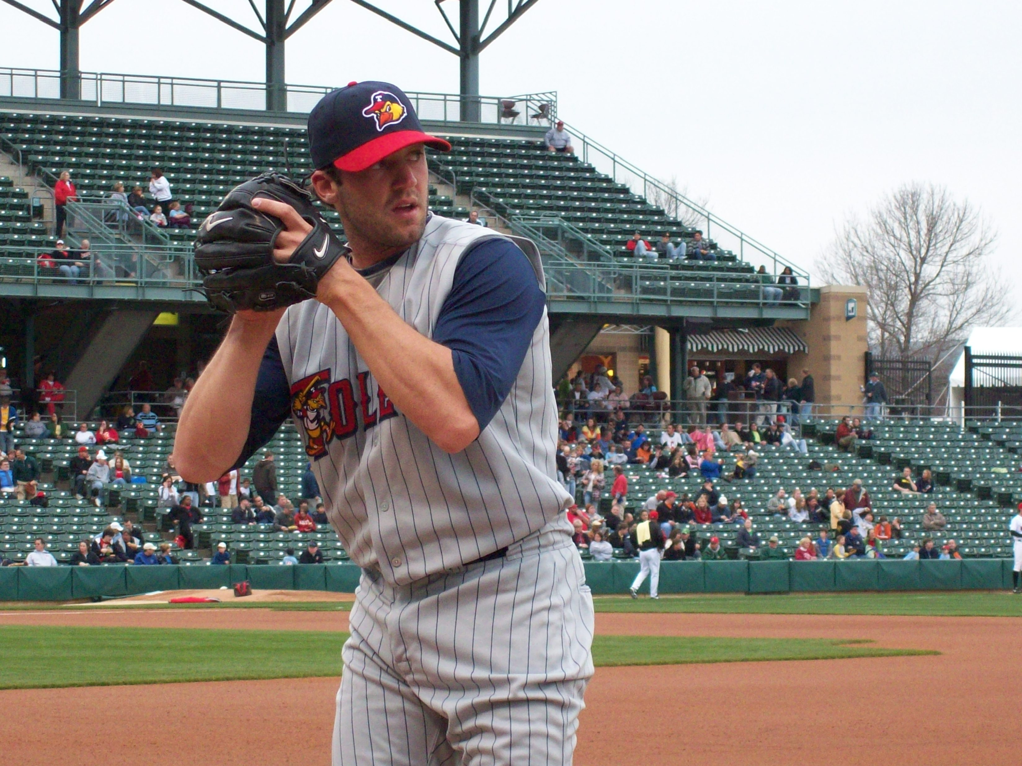 Chris Lambert of the Toledo Mud Hens, warming up prior to a game at Victory Field, Indianapolis, April 9, 2009, taken by Tim O'Brien 08:31, 26 April 2009 . . Skatefan . . 3,296×2,472 (1.05 MB)